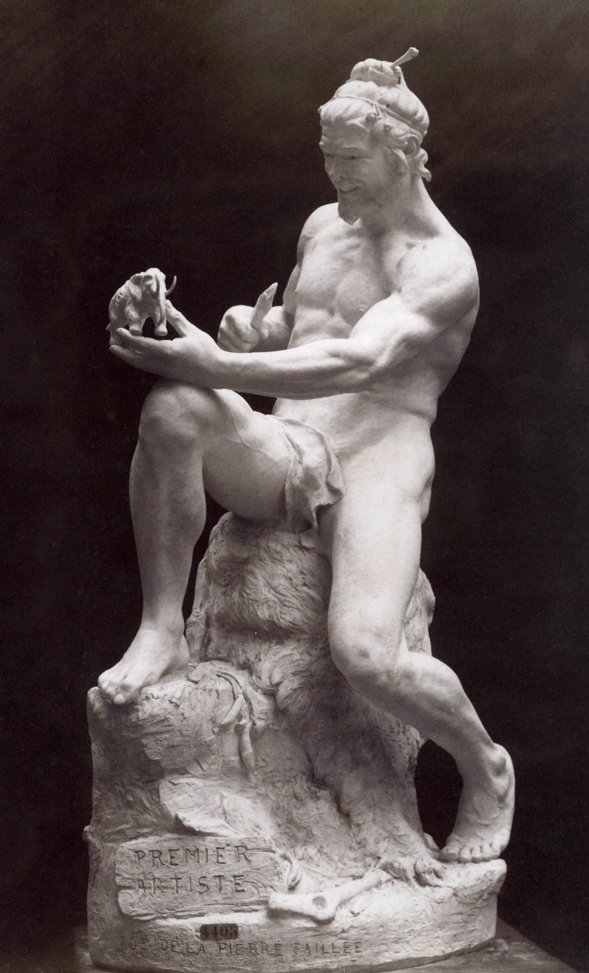 Photography of the plaster